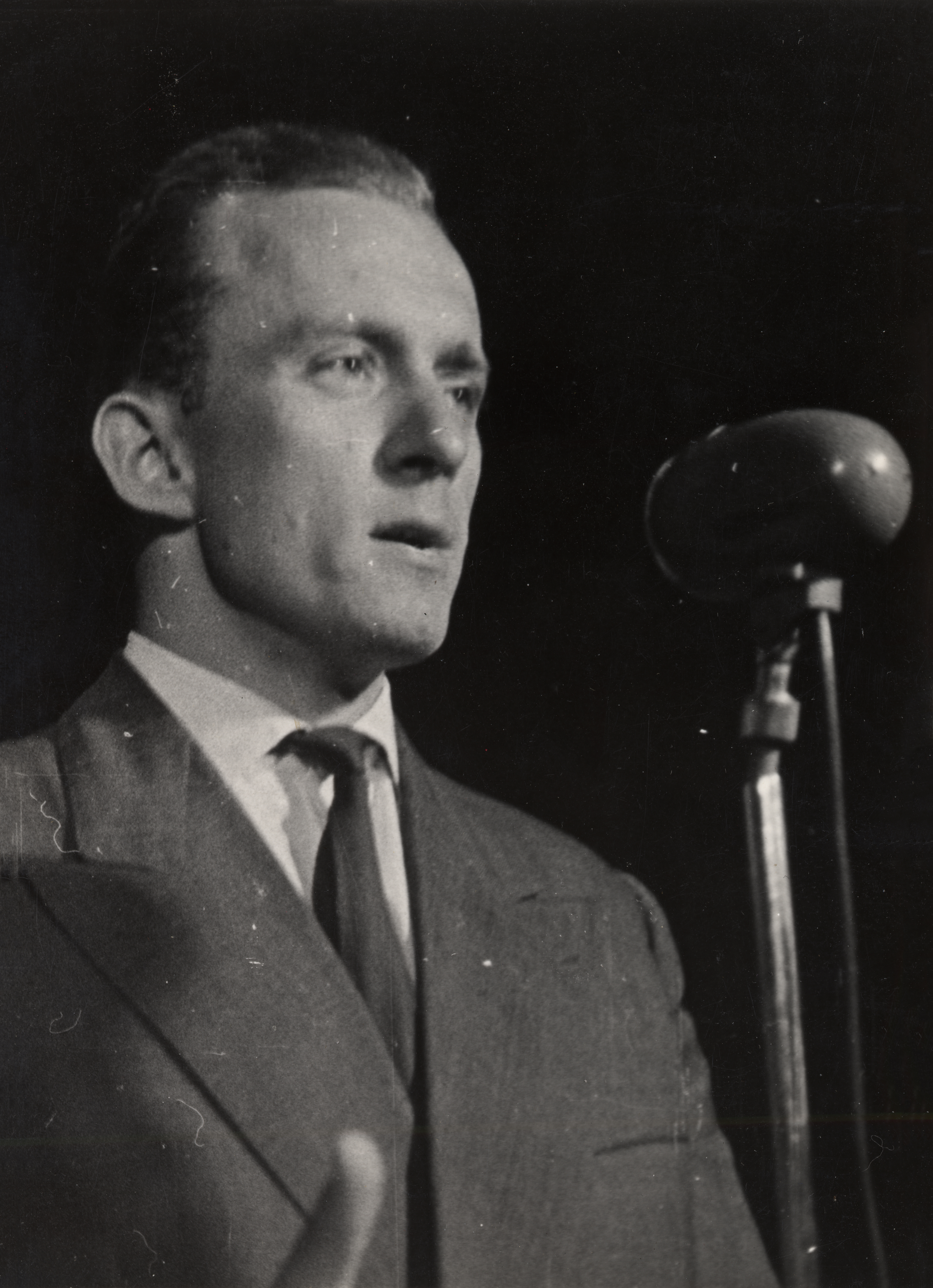 Andrzej Popiel in a live stage performance.